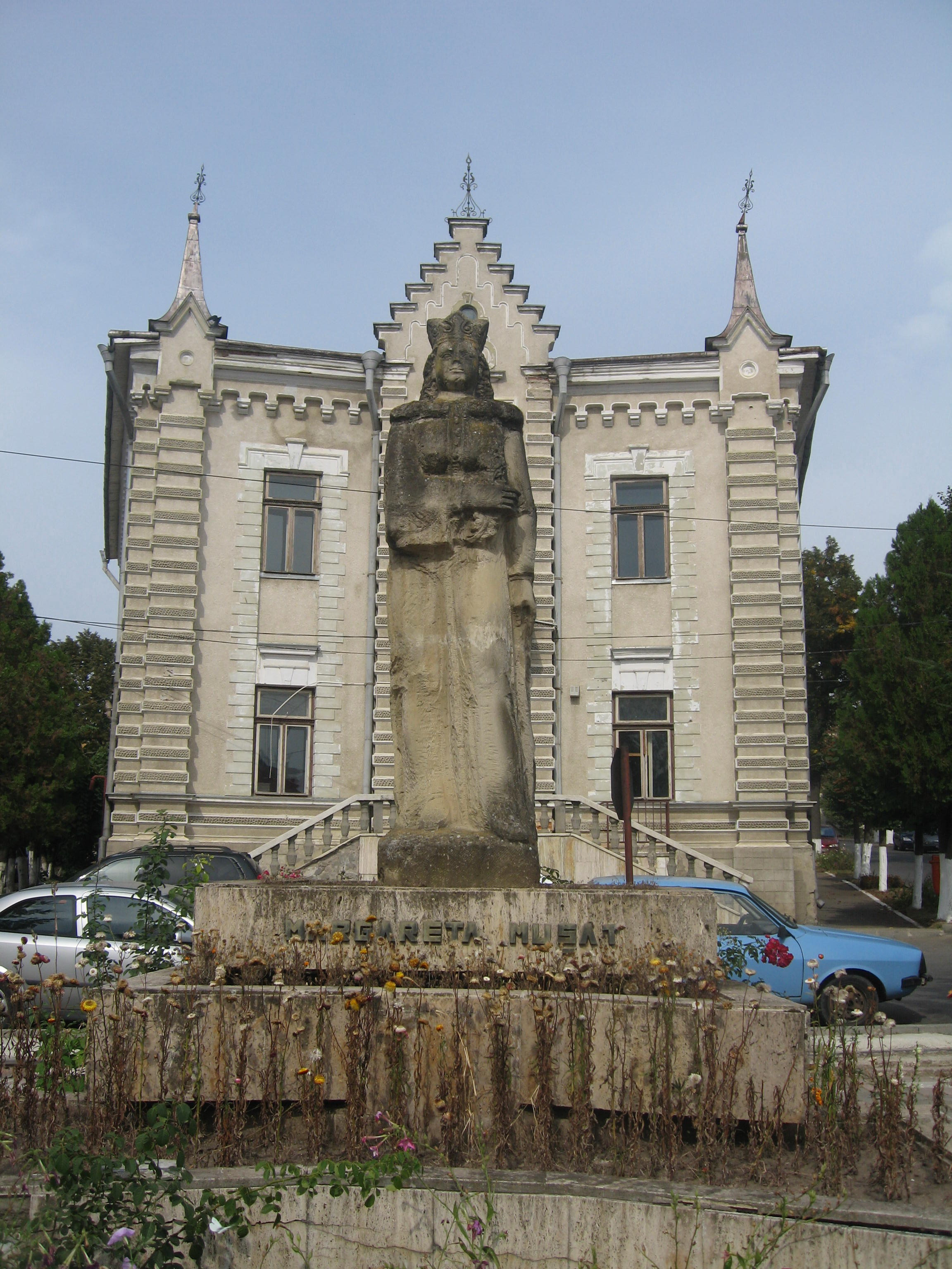 Statuia Margaretei Muşat